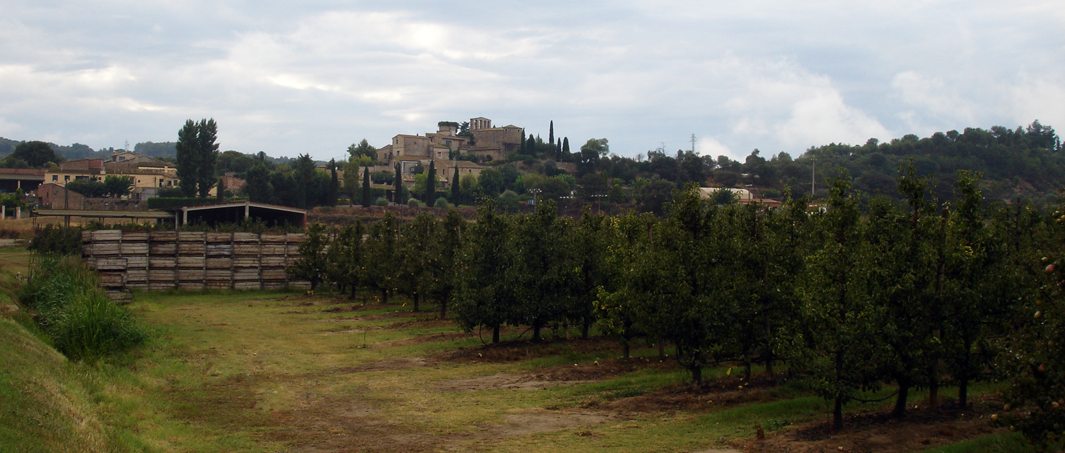 Fontanilles (Girona, Catalonia, Spain)